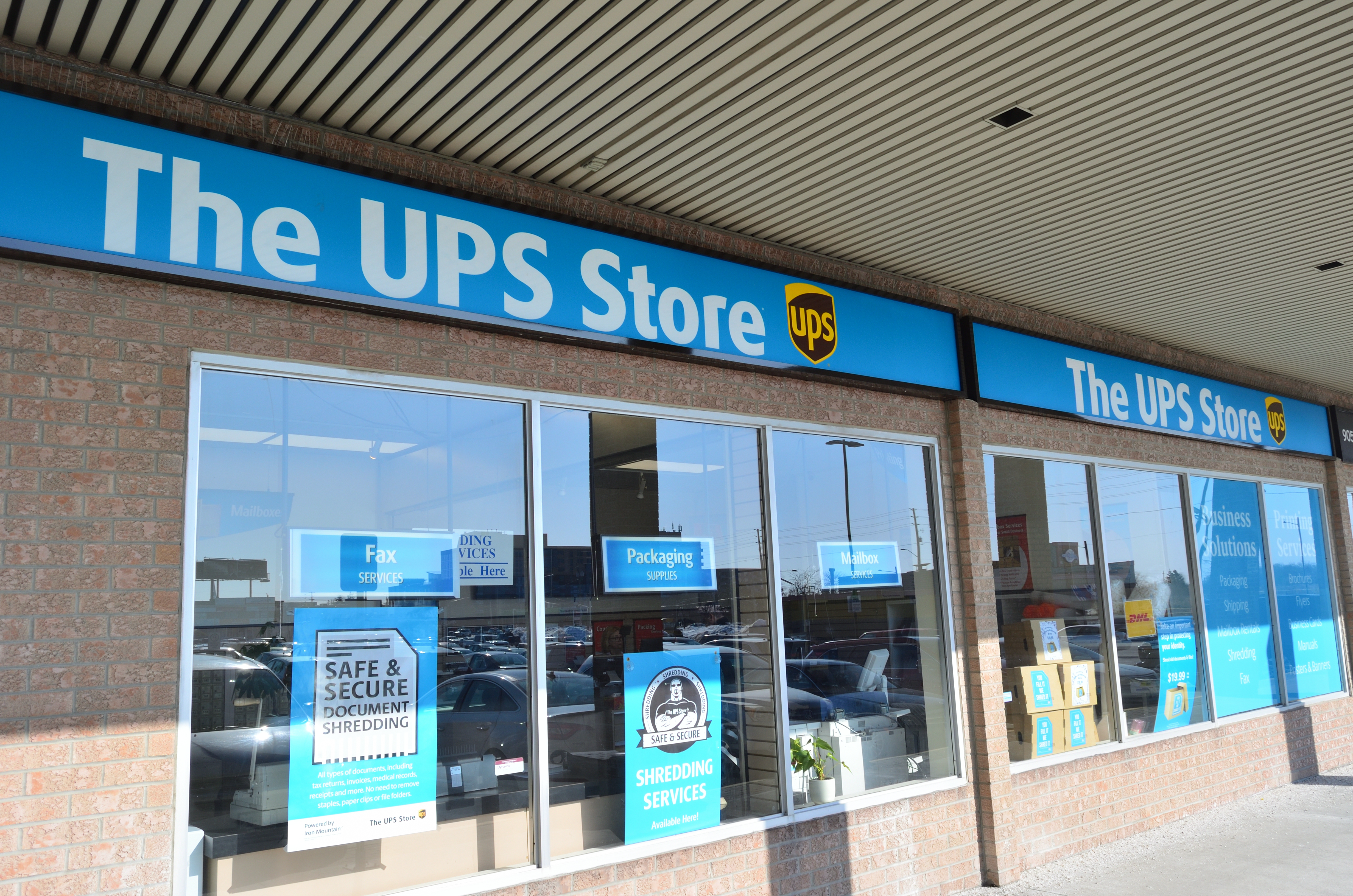 The UPS Store - Address: 10520 Yonge St #35b, Richmond Hill, ON L4C 3C7